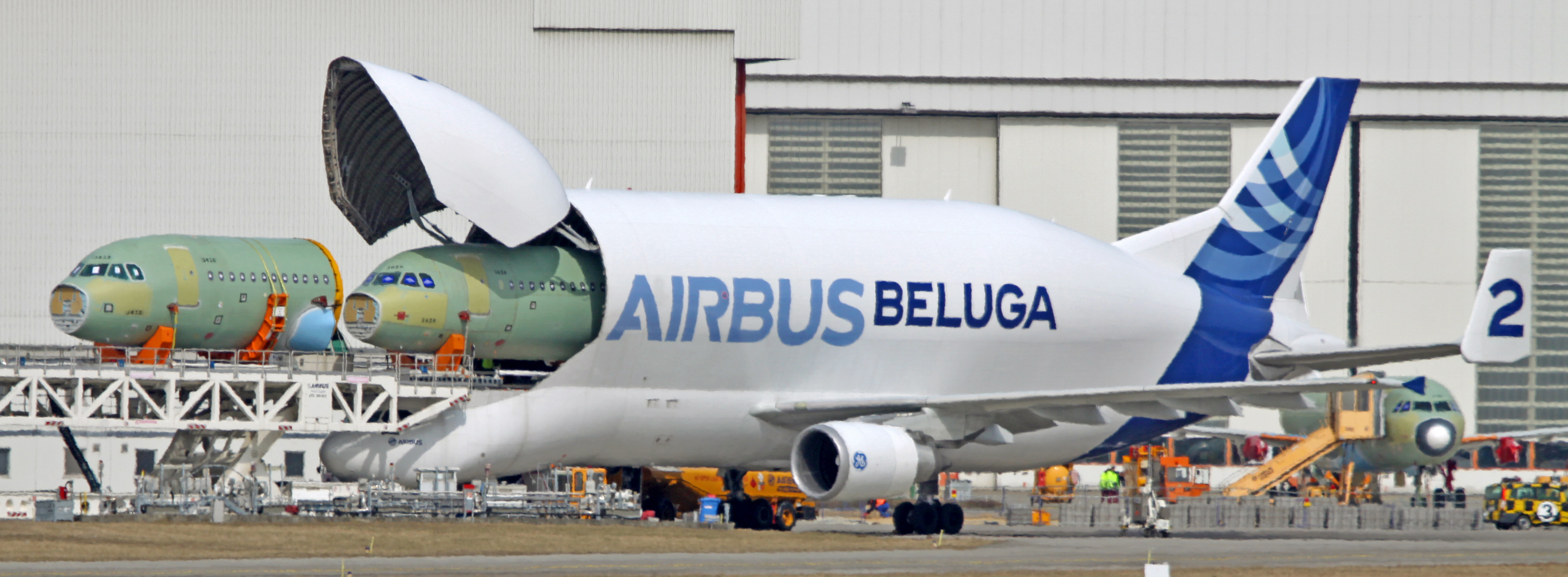 Airbus A300-600ST "Beluga" at Hamburg Finkenwerder. Unloading nose components. Other photographs in this sequence : File:F-GSTB - 2 Airbus A.300B4-608ST Beluga Airbus (8634661768).jpg File:F-GSTB - 2 Airbus A.300B4-608ST Beluga Airbus (8633550771).jpg